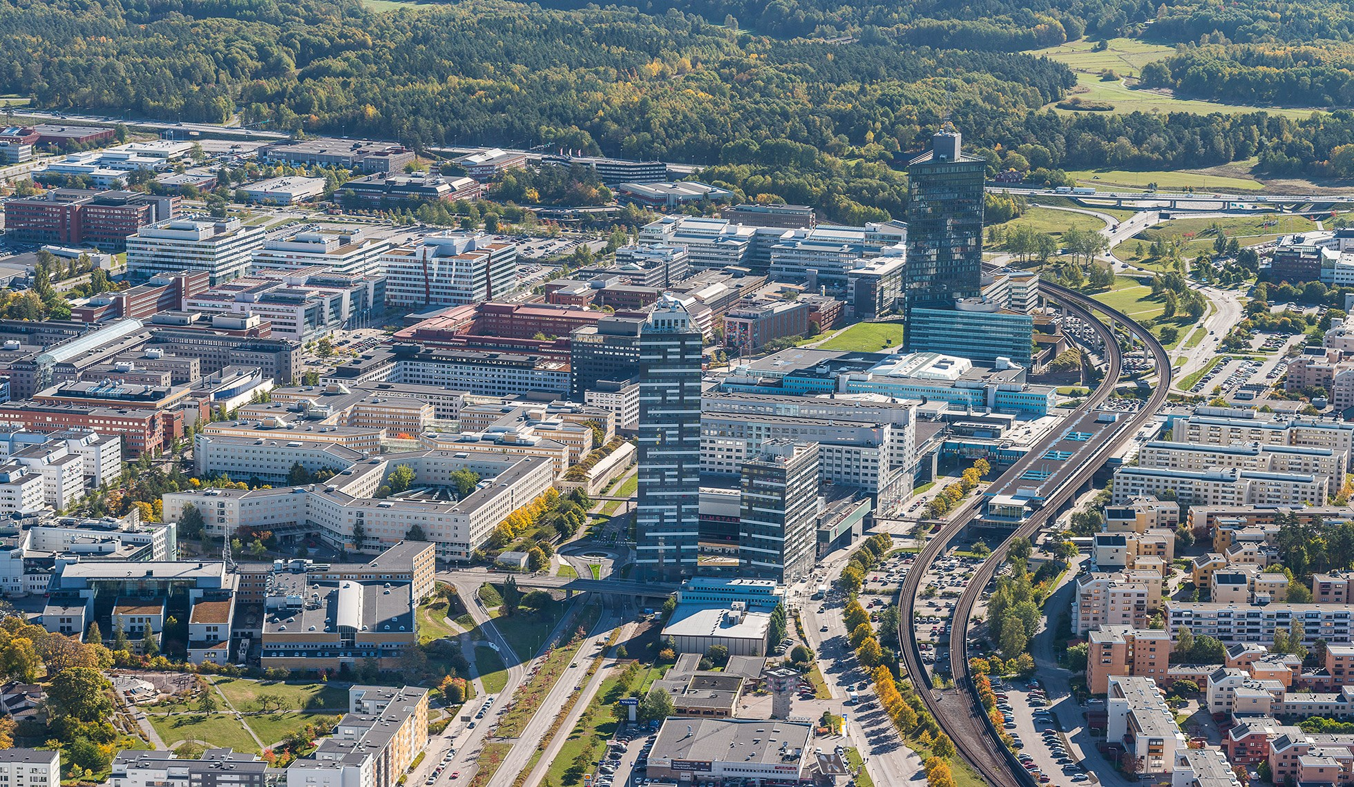 Aerial overview of central Kista. Foto: JM AB. Fotograf: Gustav Kaiser